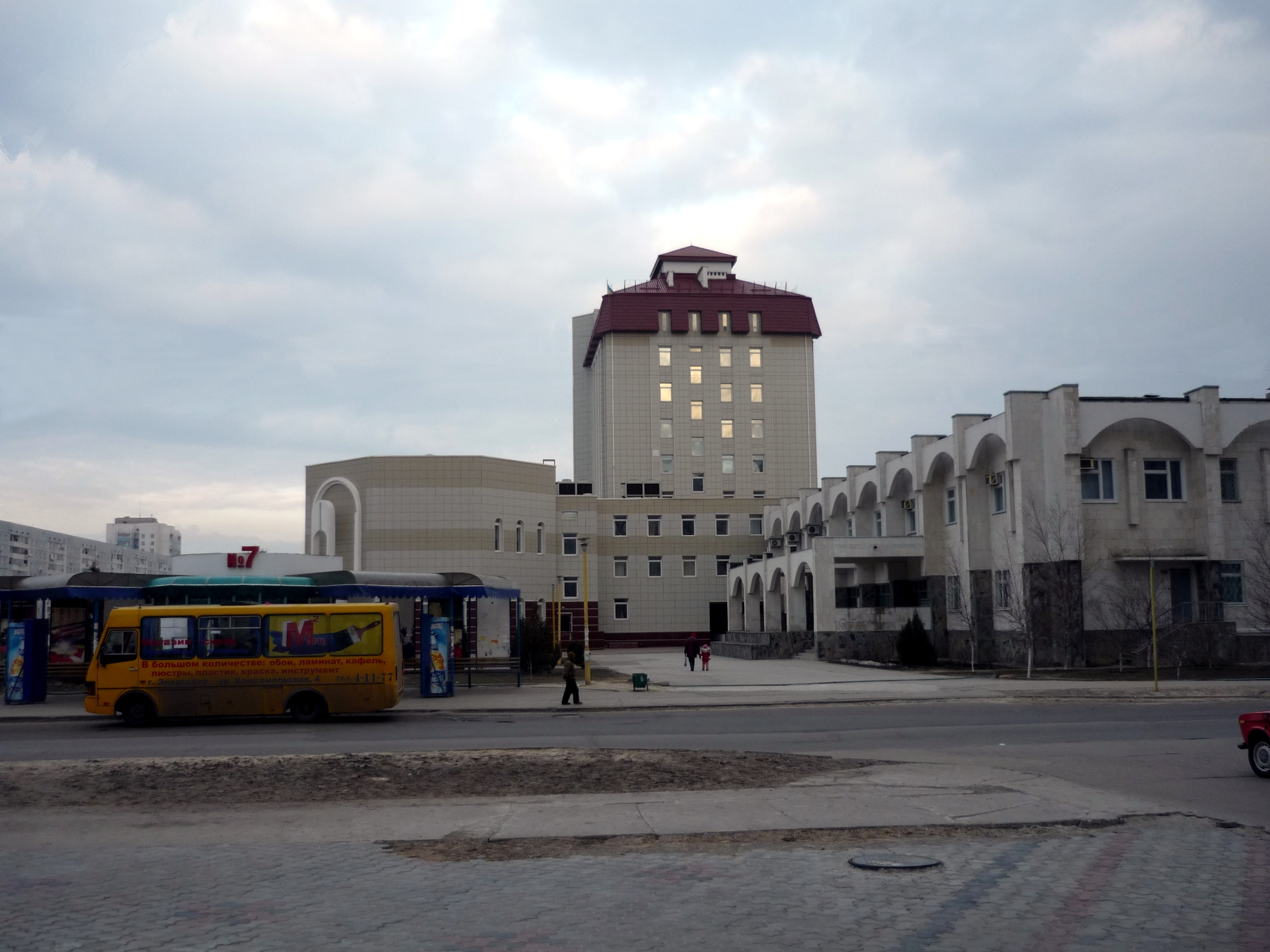 Merija energodar